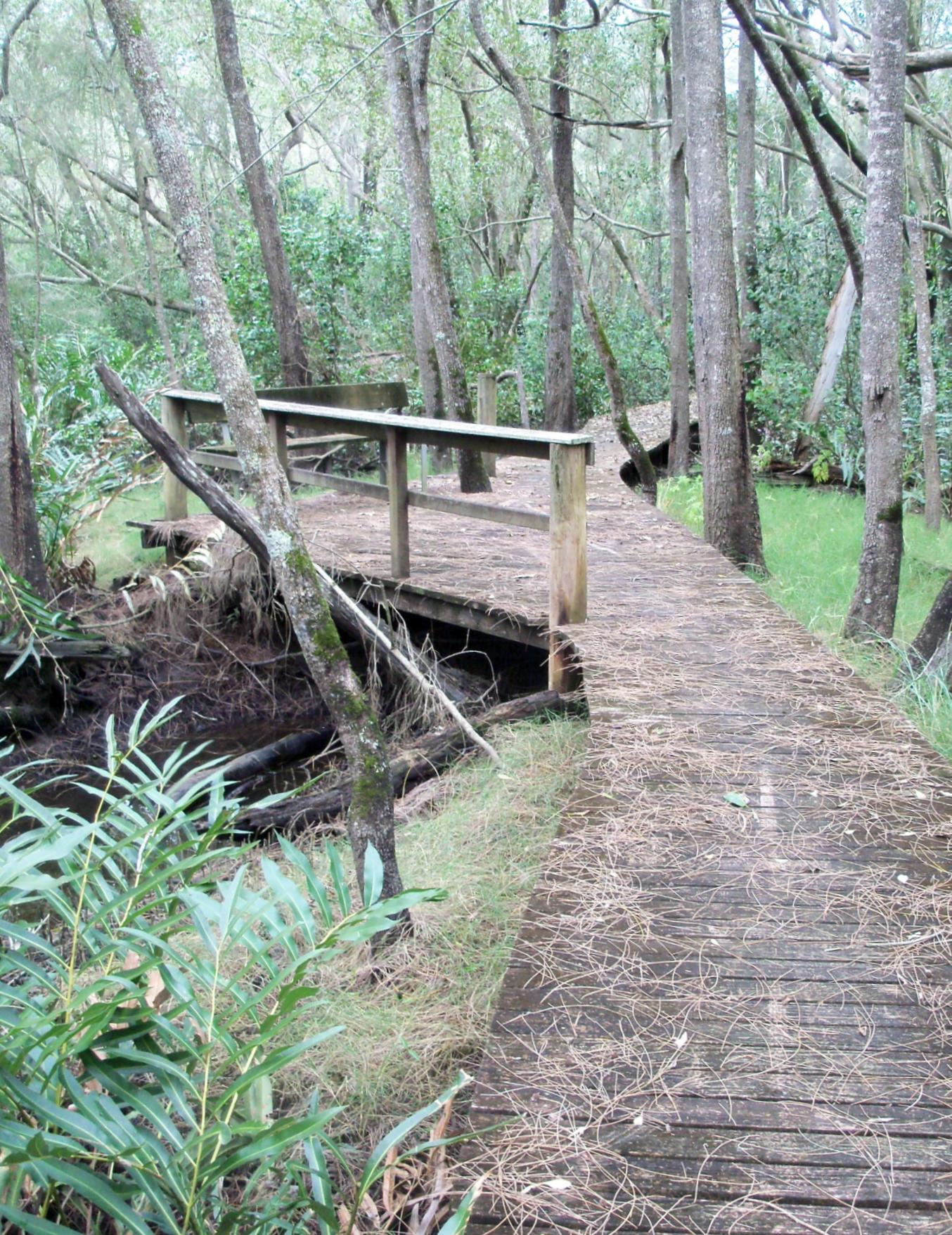 Photograph. Baden-Powell's footprint, at Victoria Point, near Brisbane, Queensland, Australia. On the grounds of Eprapah. Taken April 2015.